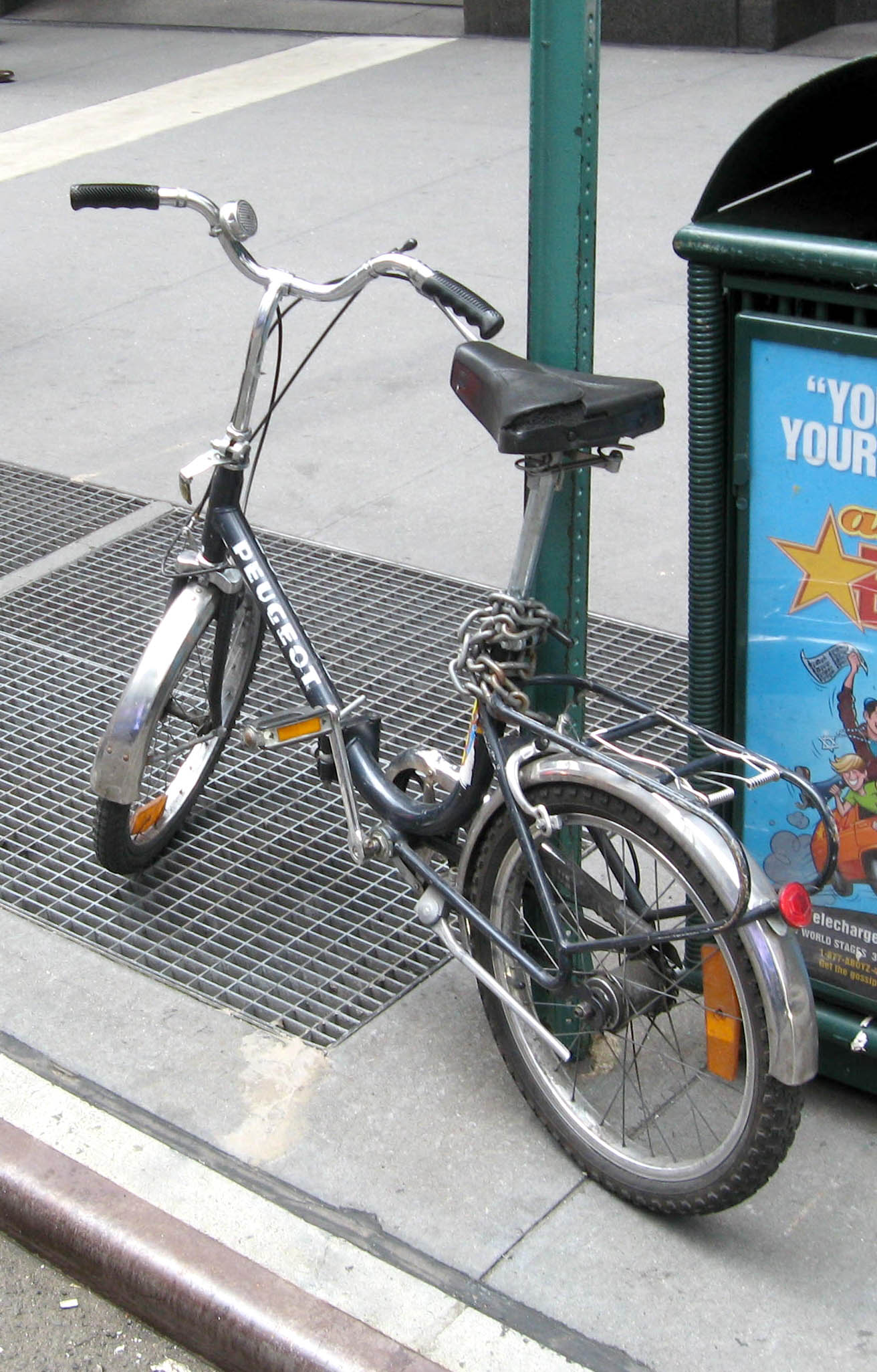 Peugeot folding bicycle on west side of Seventh Avenue (Manhattan) at 58th Street, Manhattan